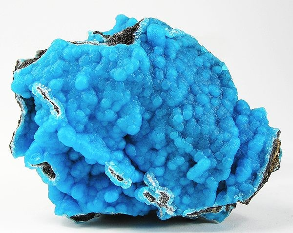 Hemimorphite Locality: Wenshan Mine, Dulong ore field, Wenshan County, Wenshan Autonomous Prefecture, Yunnan Province, China (Locality at ) Size: 8.4 x 6.8 x 4.4 cm. A fine deep blue hemimorphite specimen China. This one has not only amazing color, but a superb, almost wet-looking luster.